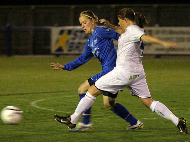 bham city ladies vs leeds utd season 2006/7 taken by Julian